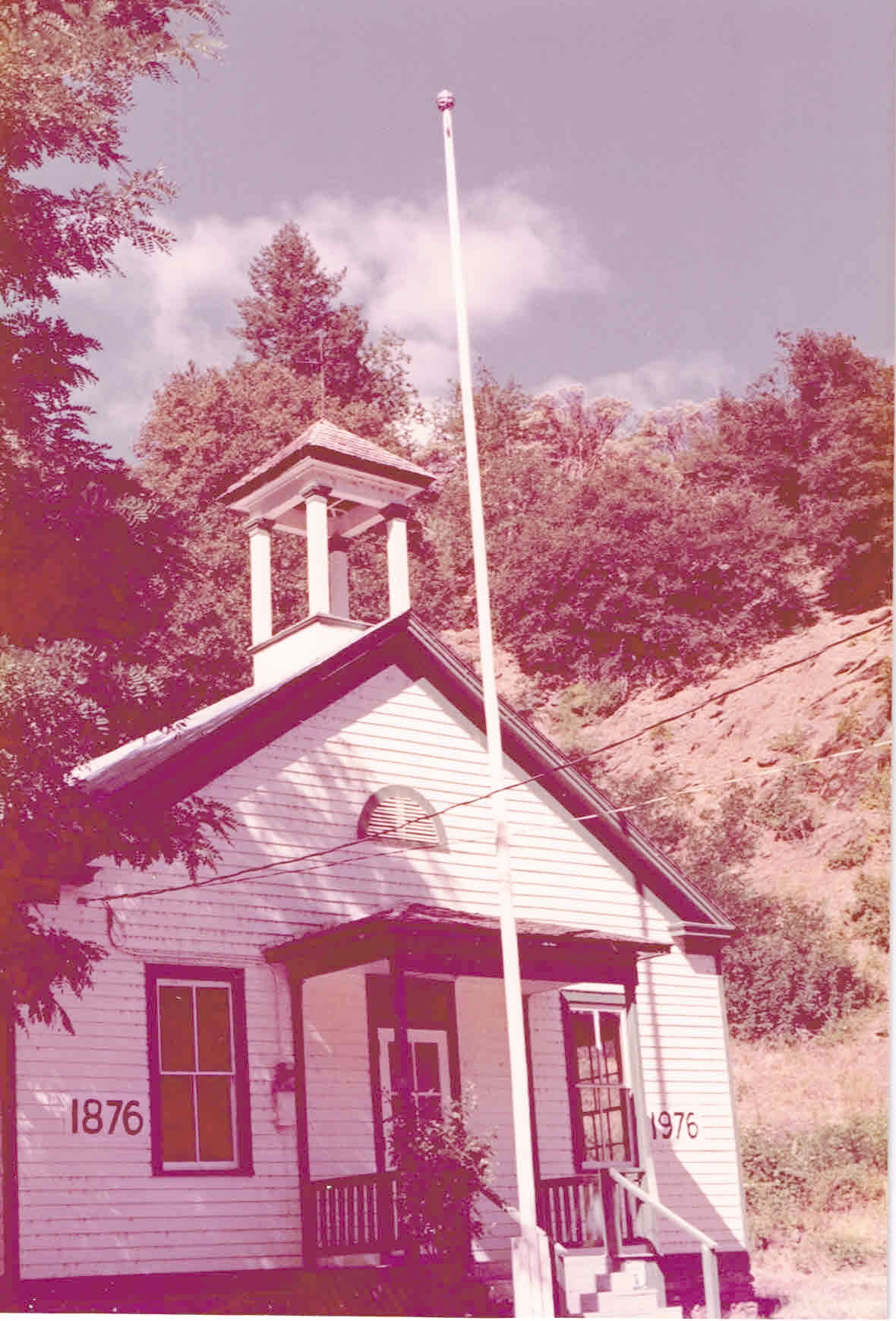 One-room school house in Scott Bar, CA